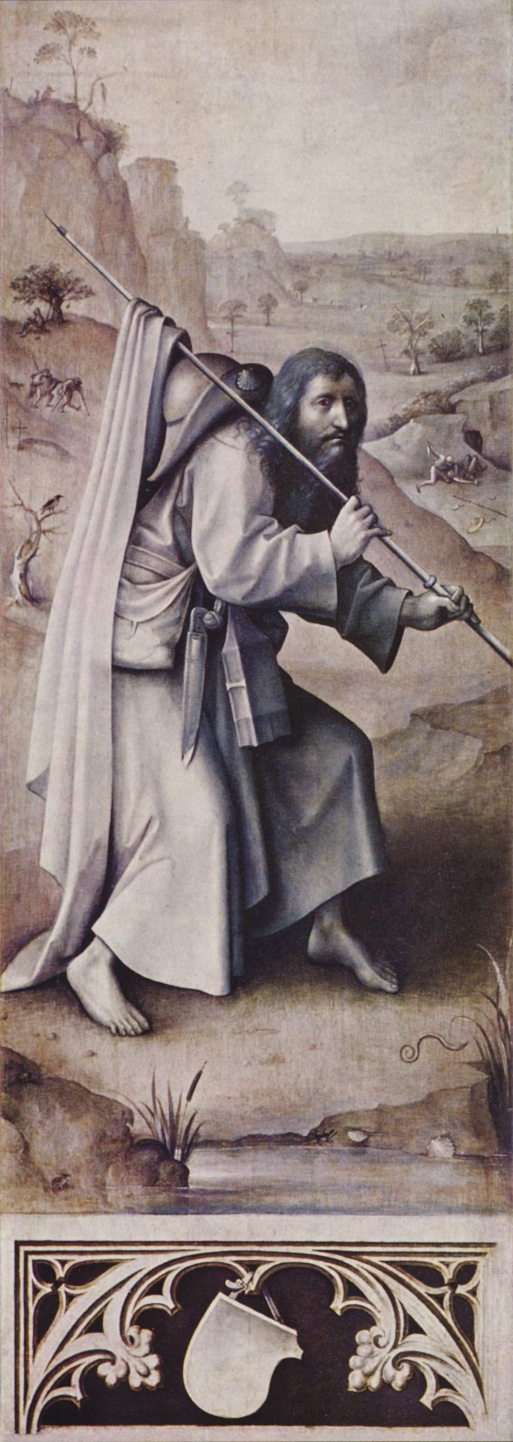 Outer left wing of a Last Judgment triptych.